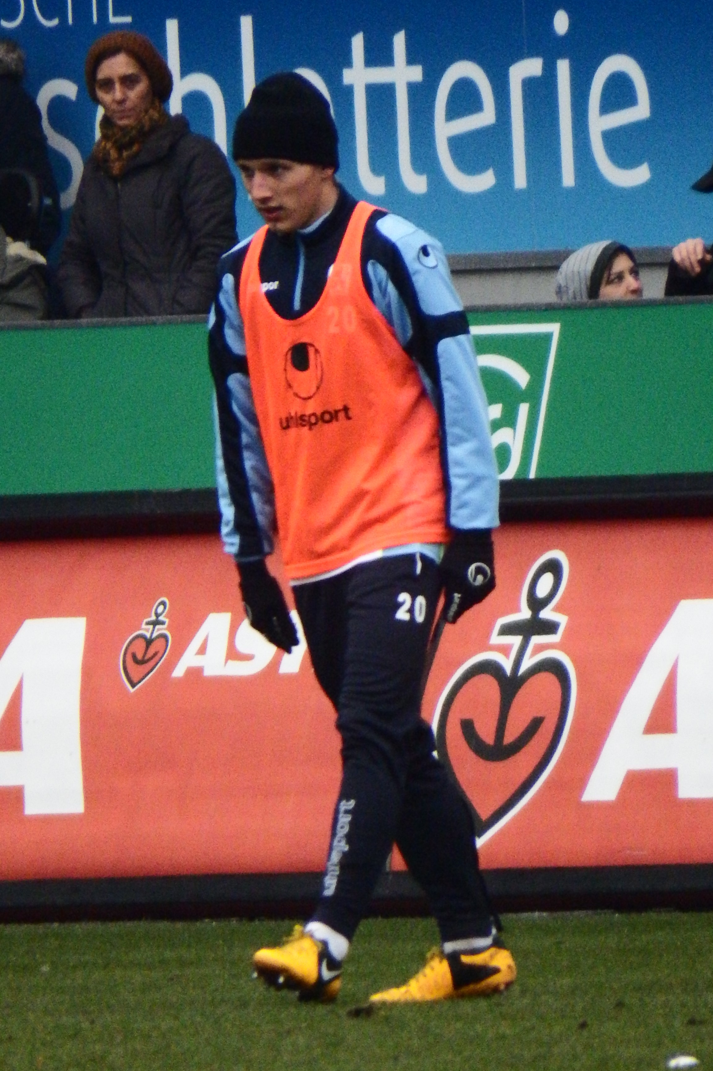 Stefan Wannenwetsch as Player from TSV 1860 München